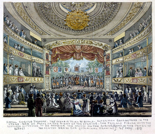 Stage and audience, viewed from the pit of the Royal Coburg Theatre, Surrey, 1818; watercolour painting Victoria and Albert Museum, London, Museum number: S.116-1997